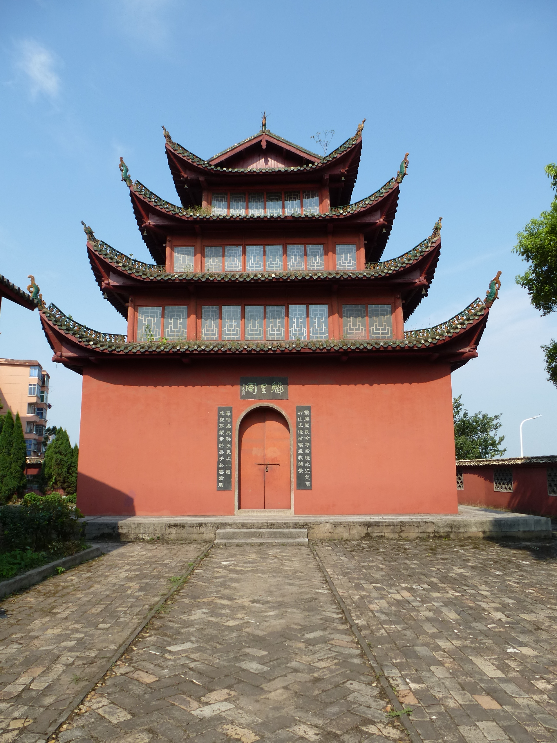 Kuixingge